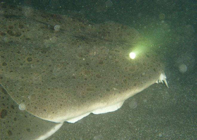 Pacific angel shark (Squatina california) off the Channel Islands.